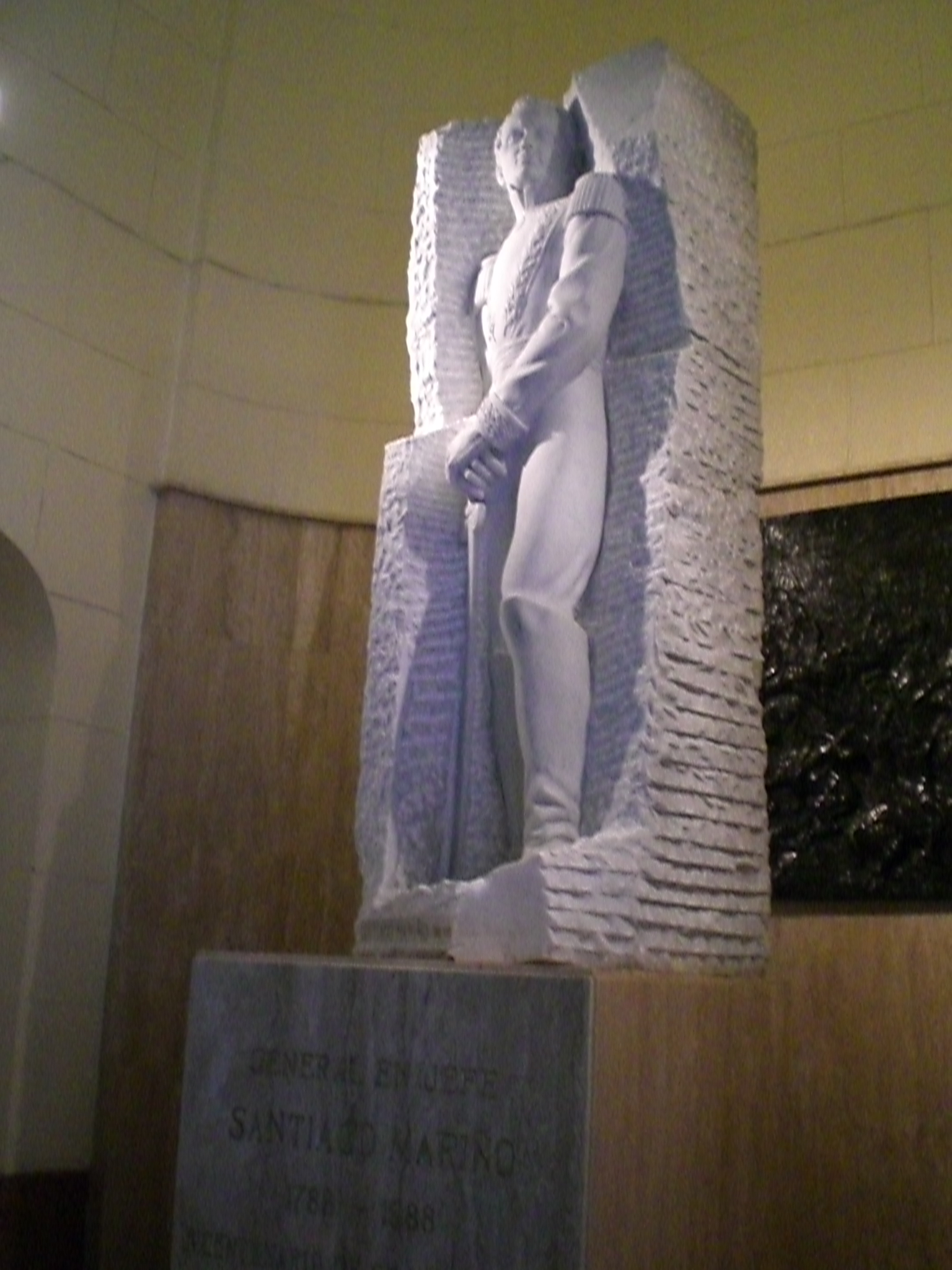 Statue of Santiago Mariño at the National Pantheon of Venezuela.